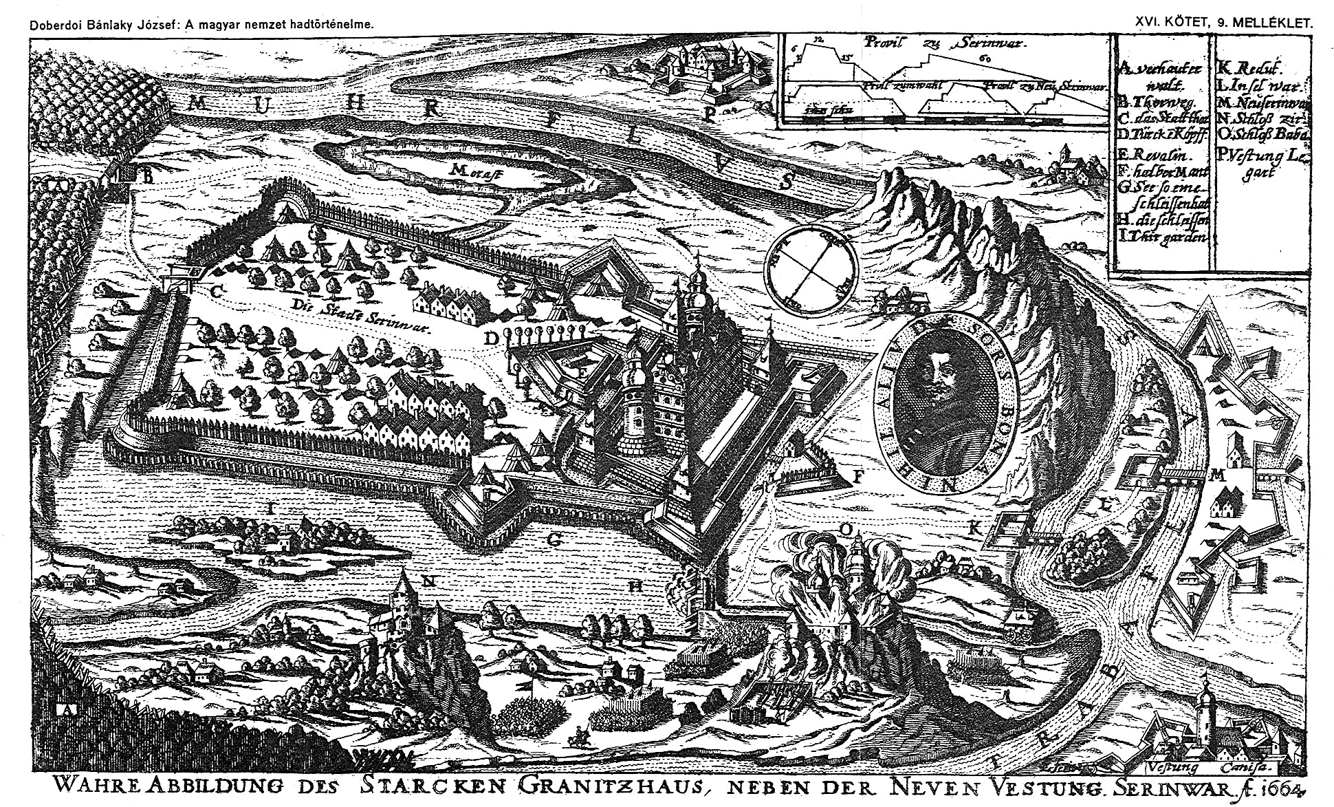 New Zrin Castle (1661-1664)